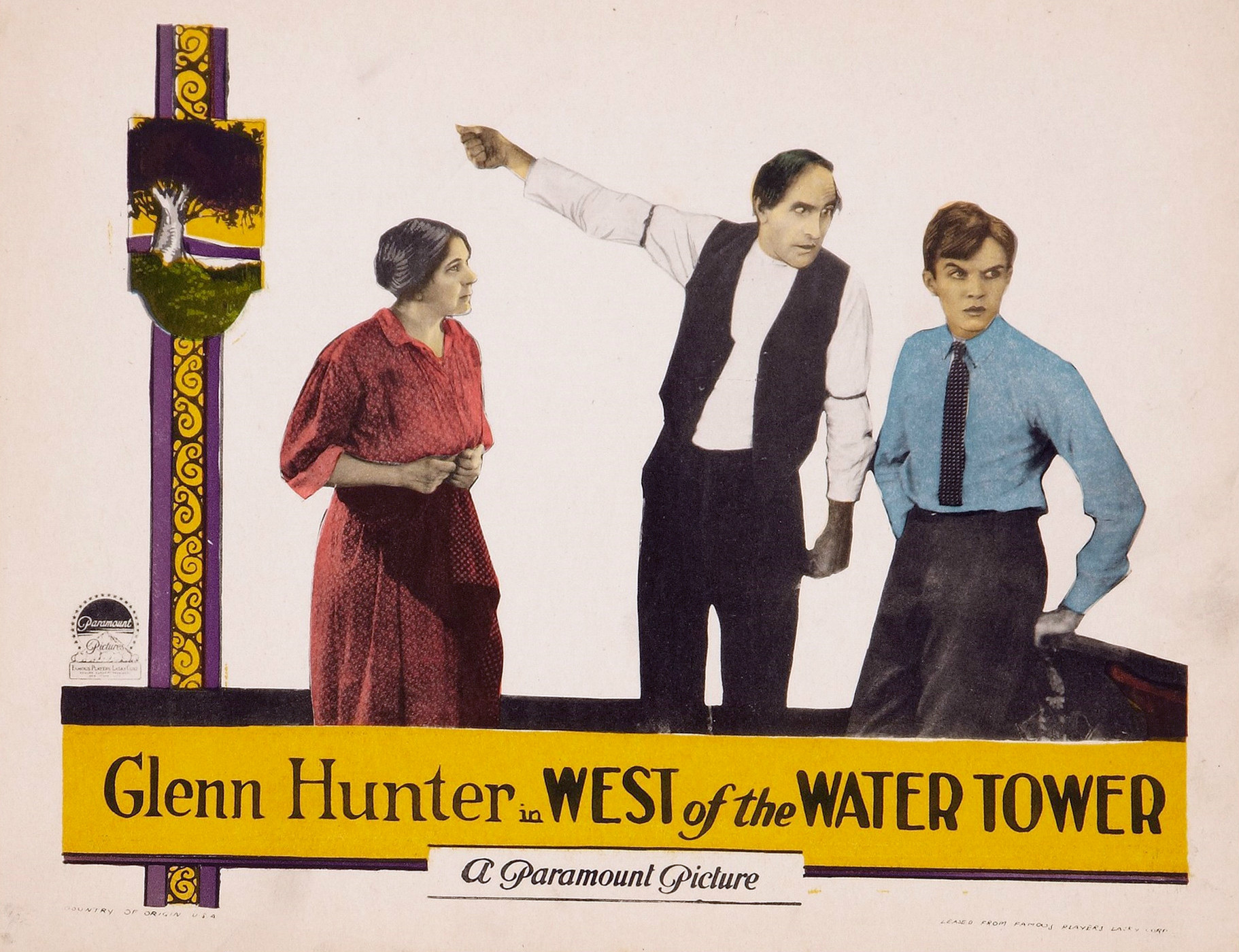 Lobby card for the American drama film West of the Water Tower (1923). The card has no copyright marks. At bottom left is Country of origin USA. At bottom right is Lease from Famous Players Lasky Corp.